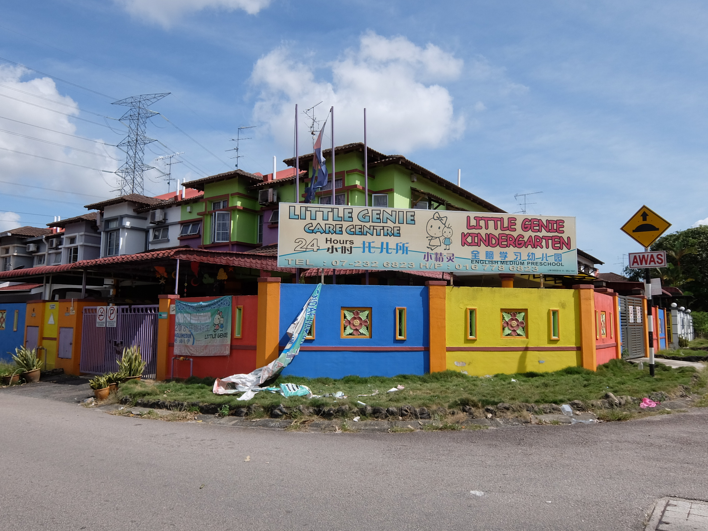 Little Genie Kindergarten, Bukit Indah, Iskandar Puteri, Johor Bahru, Johor, Malaysia